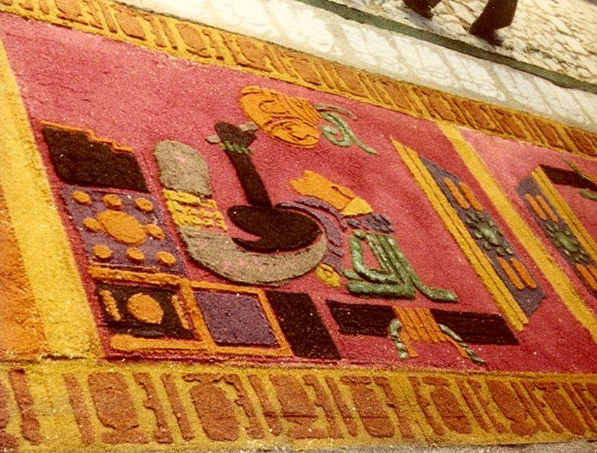 Antigua Guatemala Holy Week 1980. Street carpet in pseudo-Pre-Columbian Maya pattern. Photo by Infrogmation.